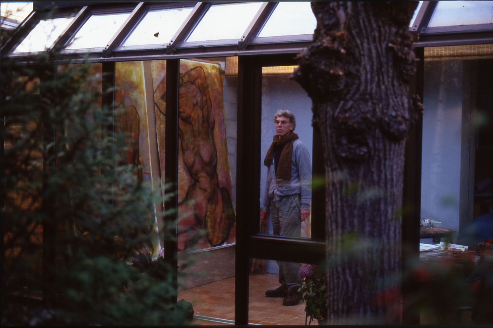 1994 - The Artist's Vincenne Studio. Richard Rappaport wrote: Five years later I was in Vincennes, the last stop on the Paris Metro. I had taken for ten months a garden apartment with a glassed-in porch where I painted what I would refer to as my “German Girl” series.